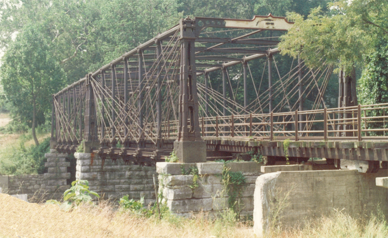 The Bollman Truss Railroad Bridge at Savage, Maryland in 1982 prior to the 1983-84 Rehabilitation by WM&A.